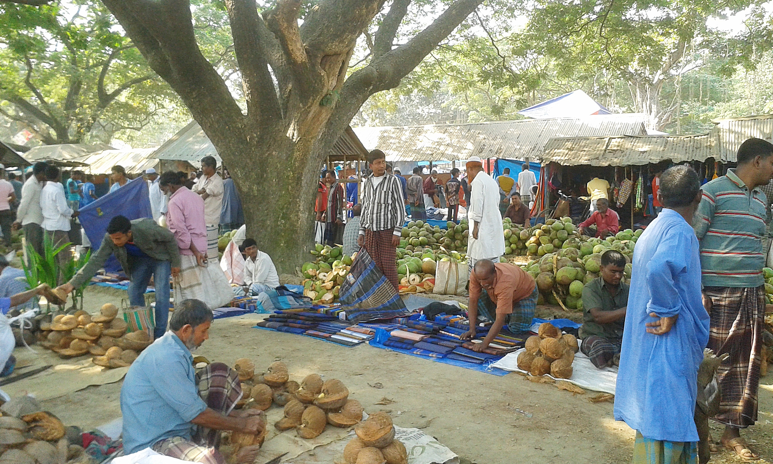 Markets in Bangladesh